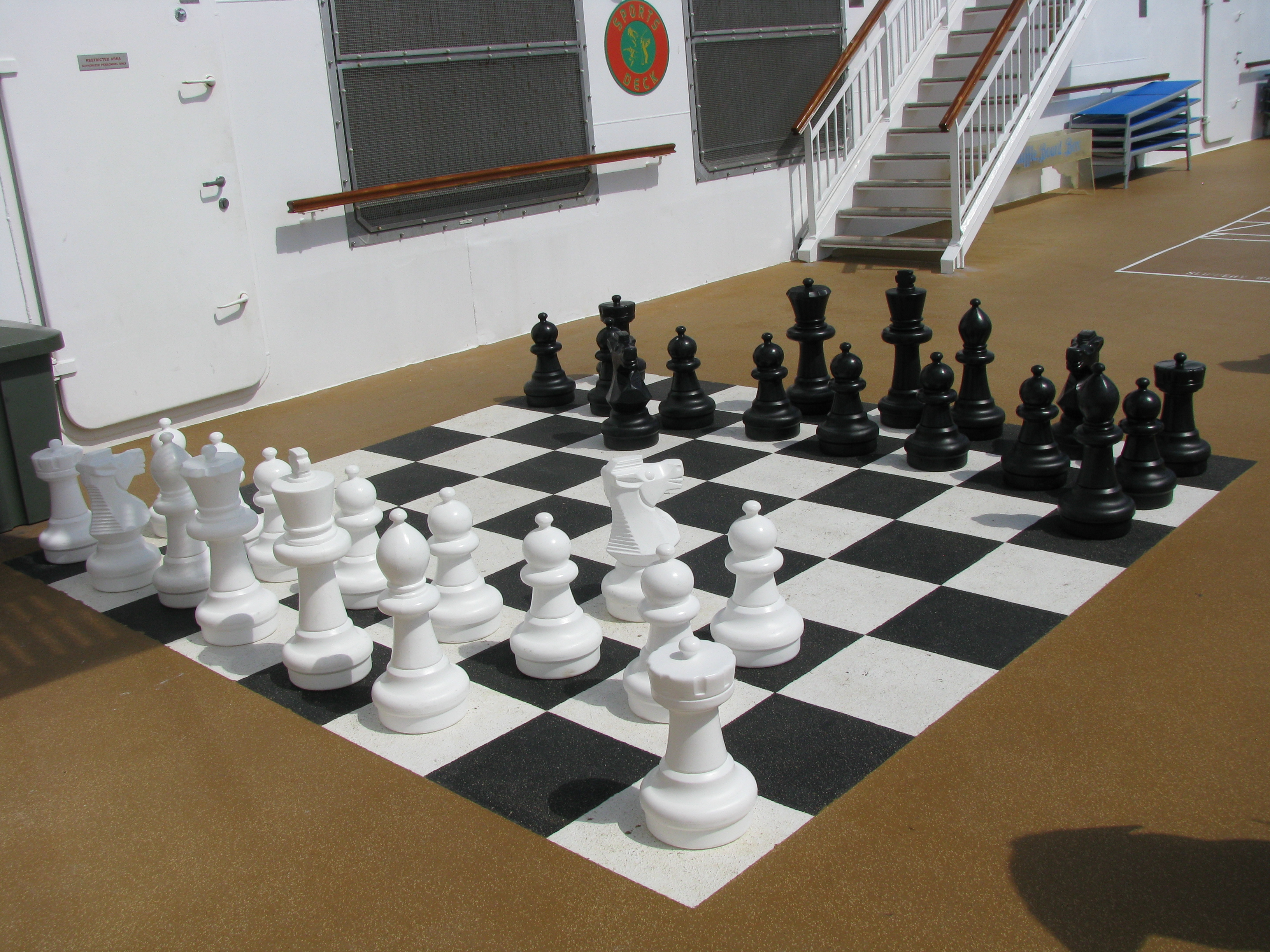 Large chess set on the sports deck (13) on the Norwegian Dawn.